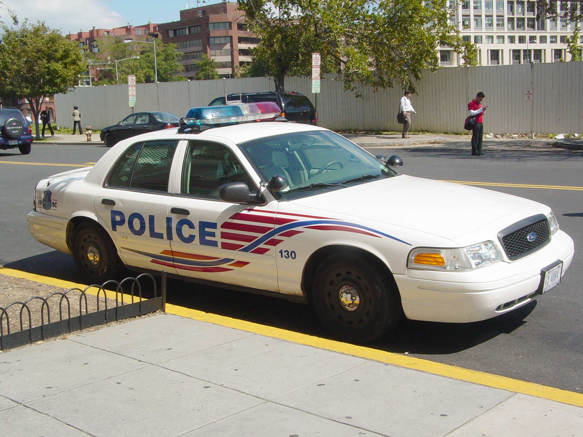 Car #130 of the Metropolitan Police Department of the District of Columbia (MPDC), a Ford Crown Victoria Police Interceptor. Photo by Ben Schumin on September 20, 2006.